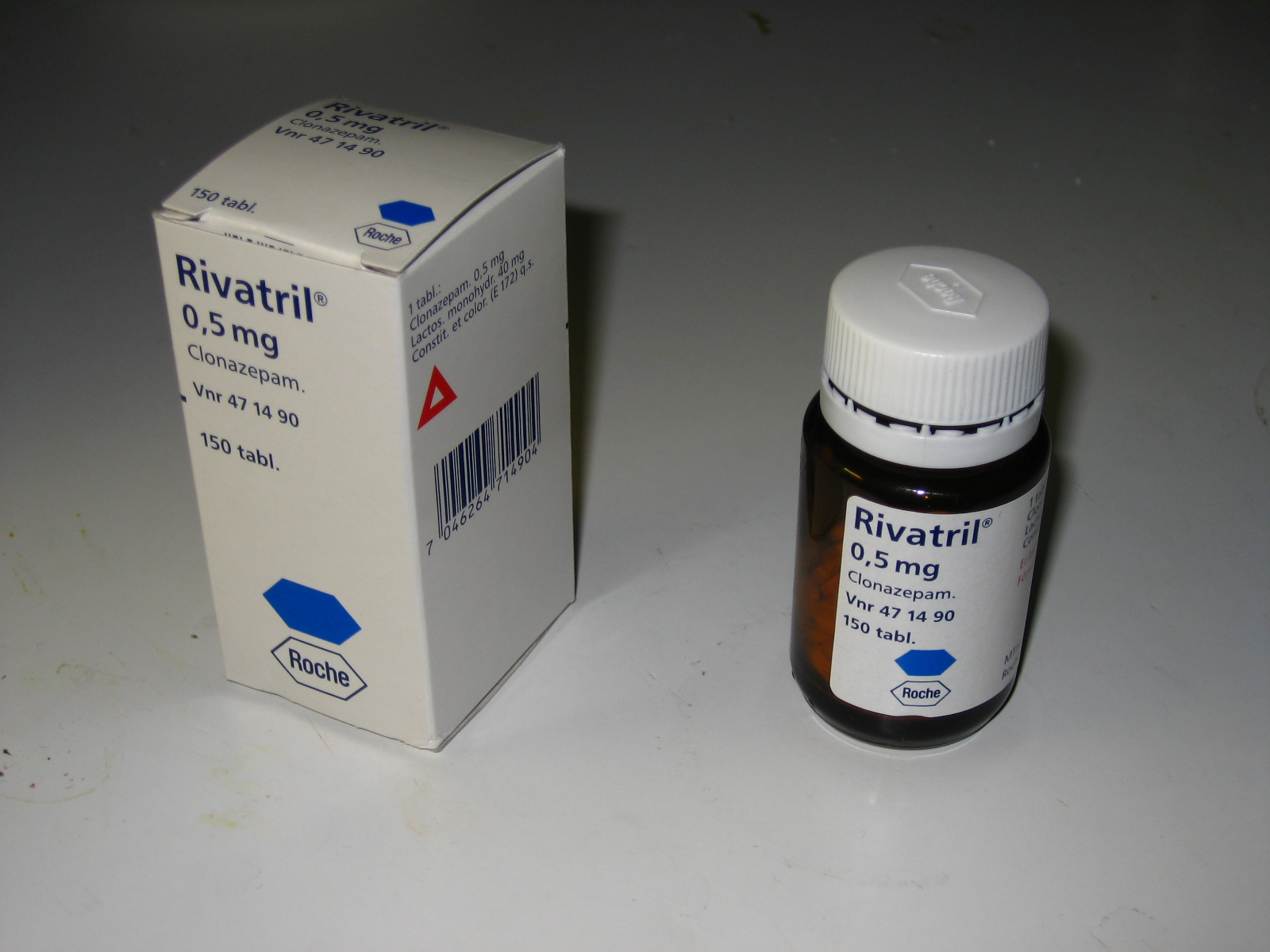 Rivatril-medicine. Clonazepam 0,5mg.